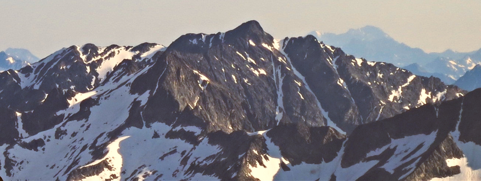 Robinson Mtn in WA